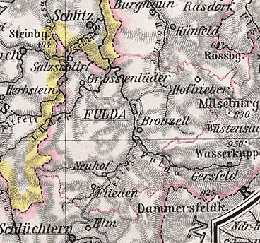 Detail from a map of Hesse.